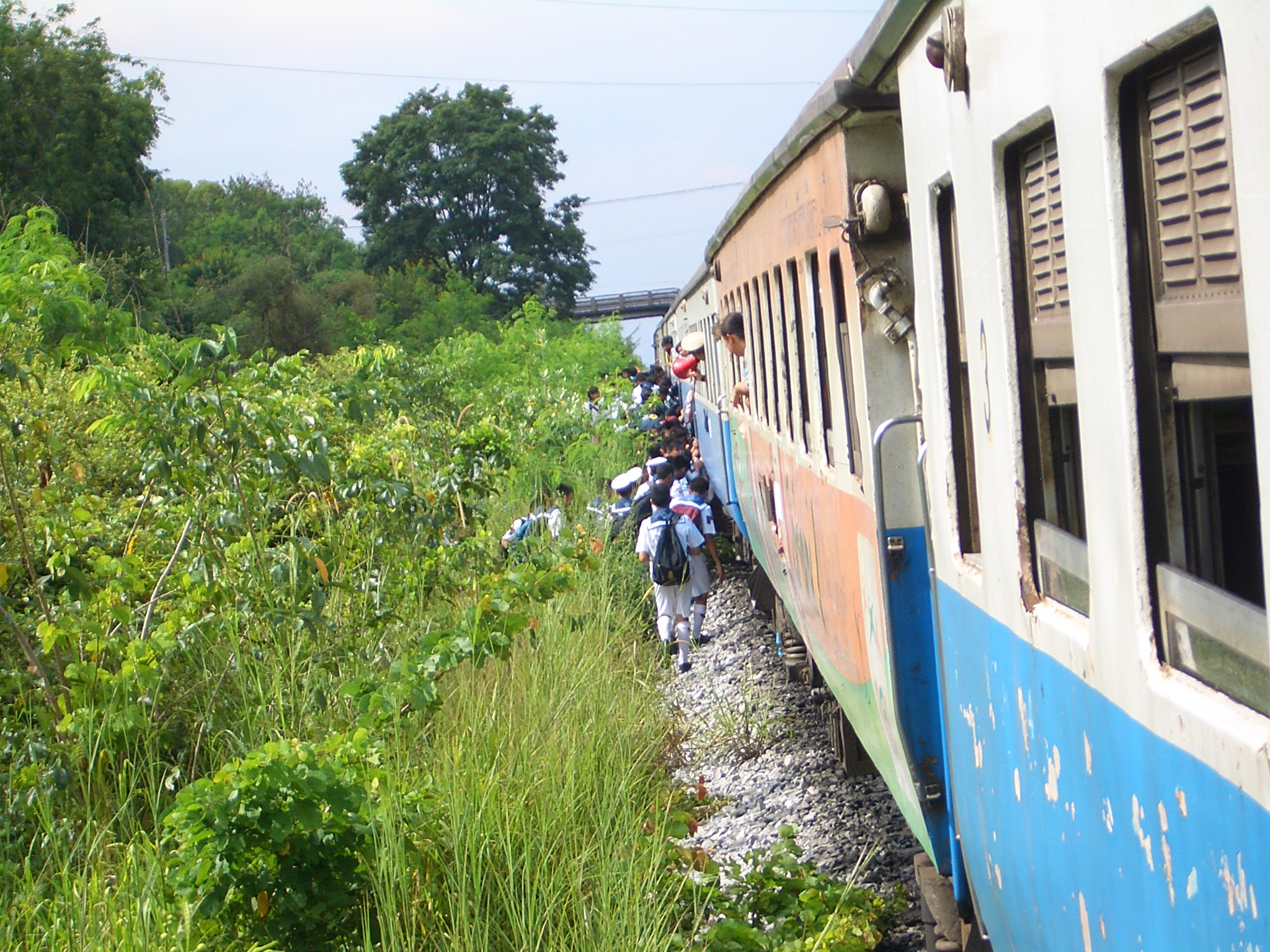 Schoolchildren in Thailand board a Pattaya-Bangkok train at an improvised stop between the stations. Several cars of the train had been reserved for schoolchildren; this apparently is a regular practice in Thailand, local-service trains used as school buses would be elsewhere.